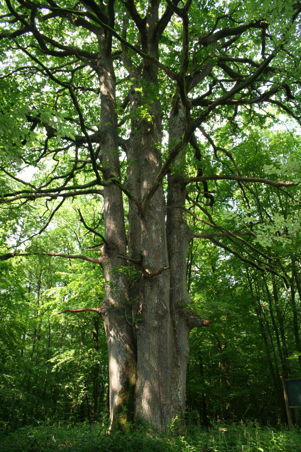 Sessile oak.